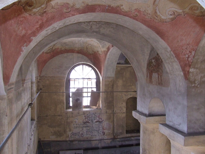 Synagogue in Bychawa